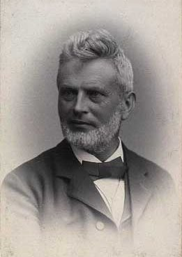 Peter Edvard Holm (1833-1915), Danish historian